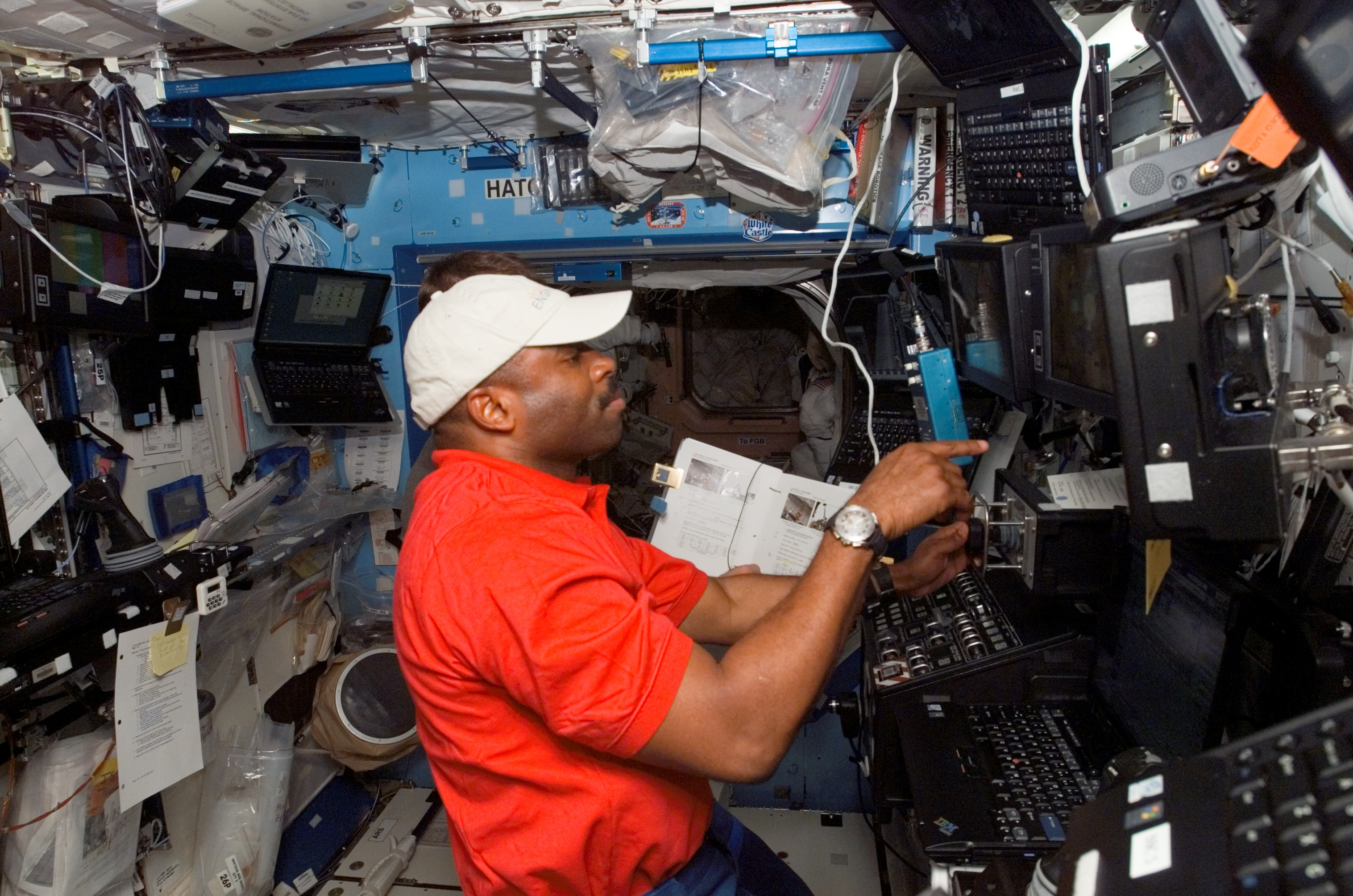 Leland Melvin working on Robotic Equipment and Laptops inside the US lab